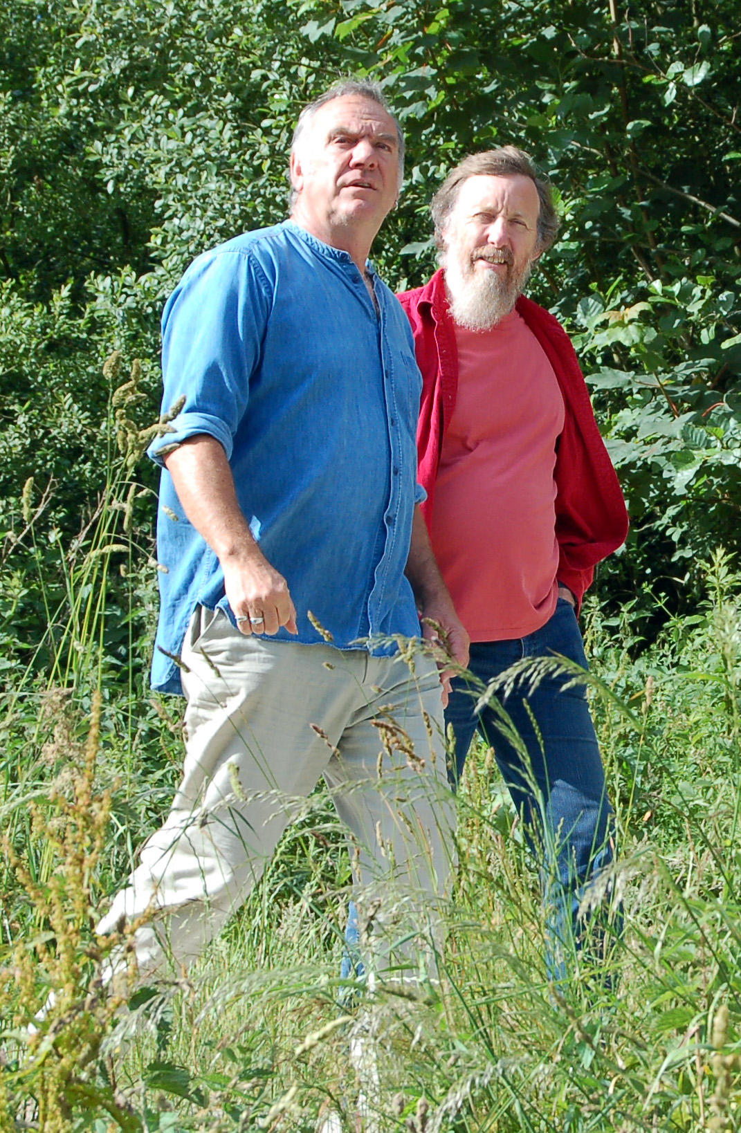 Ralph McTell (left) and David Suff (right) photographed near Pentewan, Cornwall, in July 2006